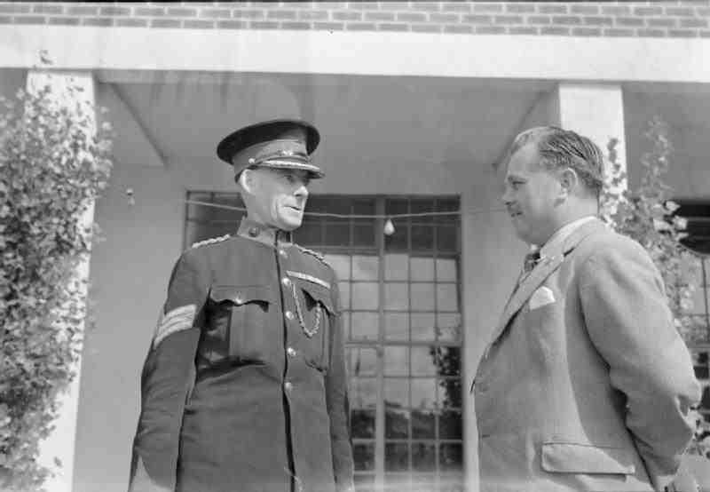 HOLIDAY CAMP GETS GOING AGAIN: EVERYDAY LIFE AT A BUTLIN'S HOLIDAY CAMP, FILEY, YORKSHIRE, ENGLAND, UK, 1945 MINISTRY OF INFORMATION SECOND WORLD WAR OFFICIAL COLLECTION